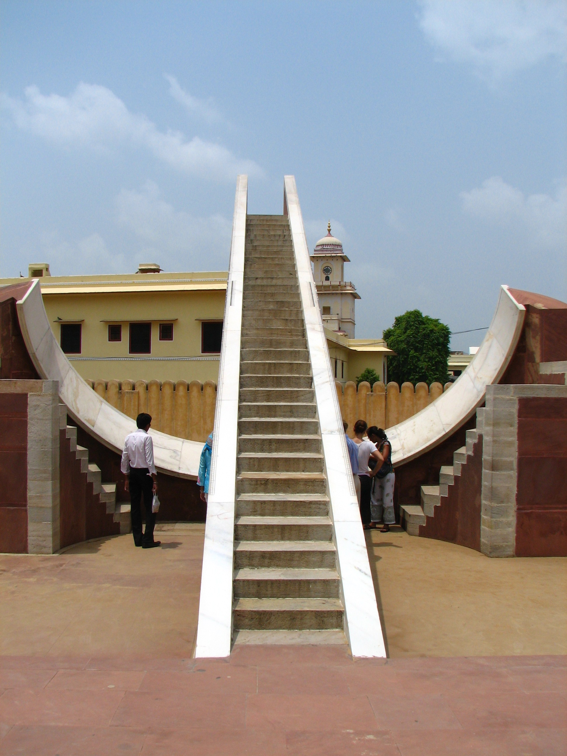 A close-up of the smaller of the 2 sundials at the Jantar Mantar Observatory in Jaipur. The centrepiece is set at the exact same angle as the latitude of Jaipur, calibrated to the North Star. You can read the time off the curved stone at the back, AM and PM. Built by the Maharaja Jai Singh II in 1730, the Jantar Mantar is a working observatory for marking the time and position of the astrologically important stars,planents and constellations and contains 14 major geometric instruments that map the time and location of the sun, stars and planets. These instruments were built for calculating the astrological chart of a person at the exact time of his/her birth that is belived to have a vital influence and guidance for a person's life. They could also predict recurring phenomenon such as eclipses and the monsoons. It is a good example of how important trying to clock time accurately has been for millennia and what tools they used prior to our quartz crysal digital watches, atomic clocks and GPS satellites. I also noted that if this was a tourist attraction in North America, there is no way the rail-less stairs would just be left open for anyone to climb and potentially fall off. If this was in NA, there would be gates and roped off areas and withering guards and signs warning of the risks of falling and not to play on the instruments. I appreciate that India is not so paranoid and coddled that they would ruin the acstetic lines and original look of the site to protect people from personal responsibility.